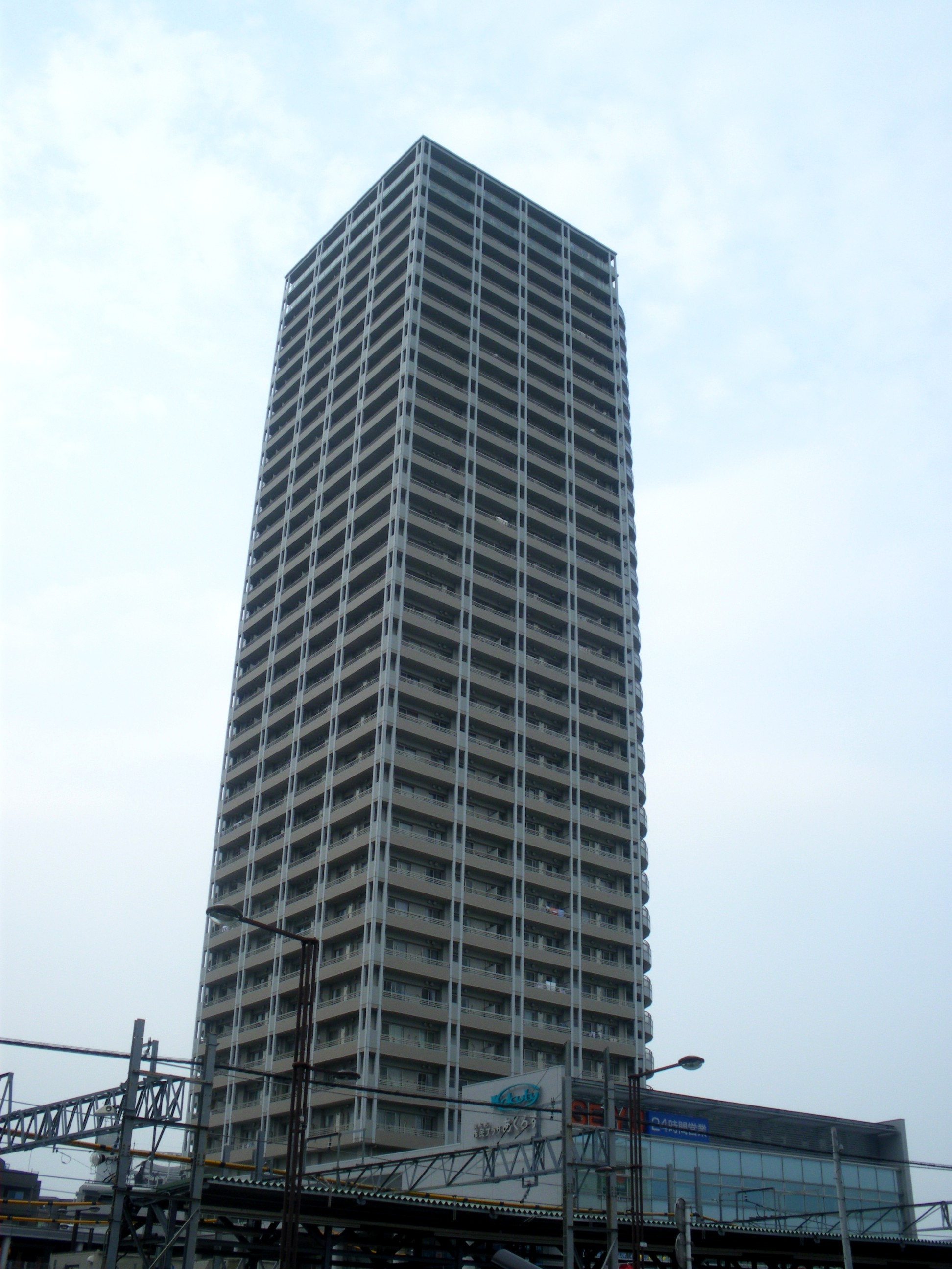 Grand Tower Chohukokuryo le Passage